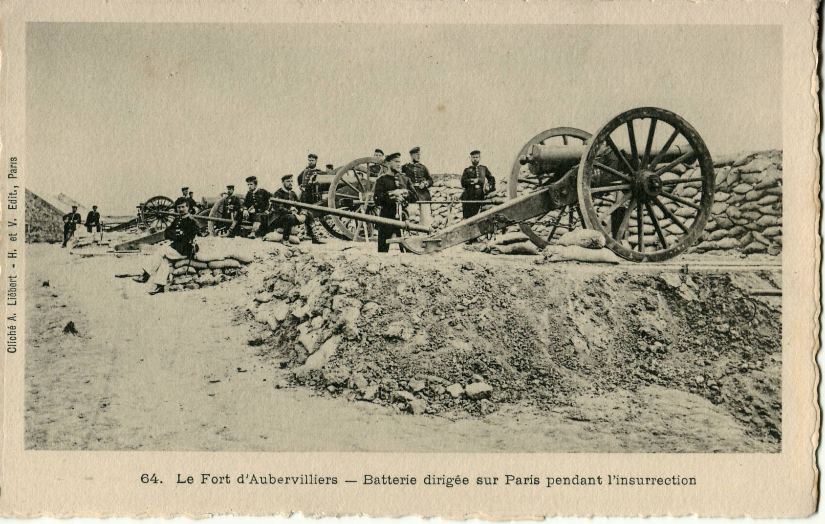 Old postard edited by Liébert N°64: Fort d'Aubervilliers: Battery directed on Paris before the insurrection (the Paris Commune)